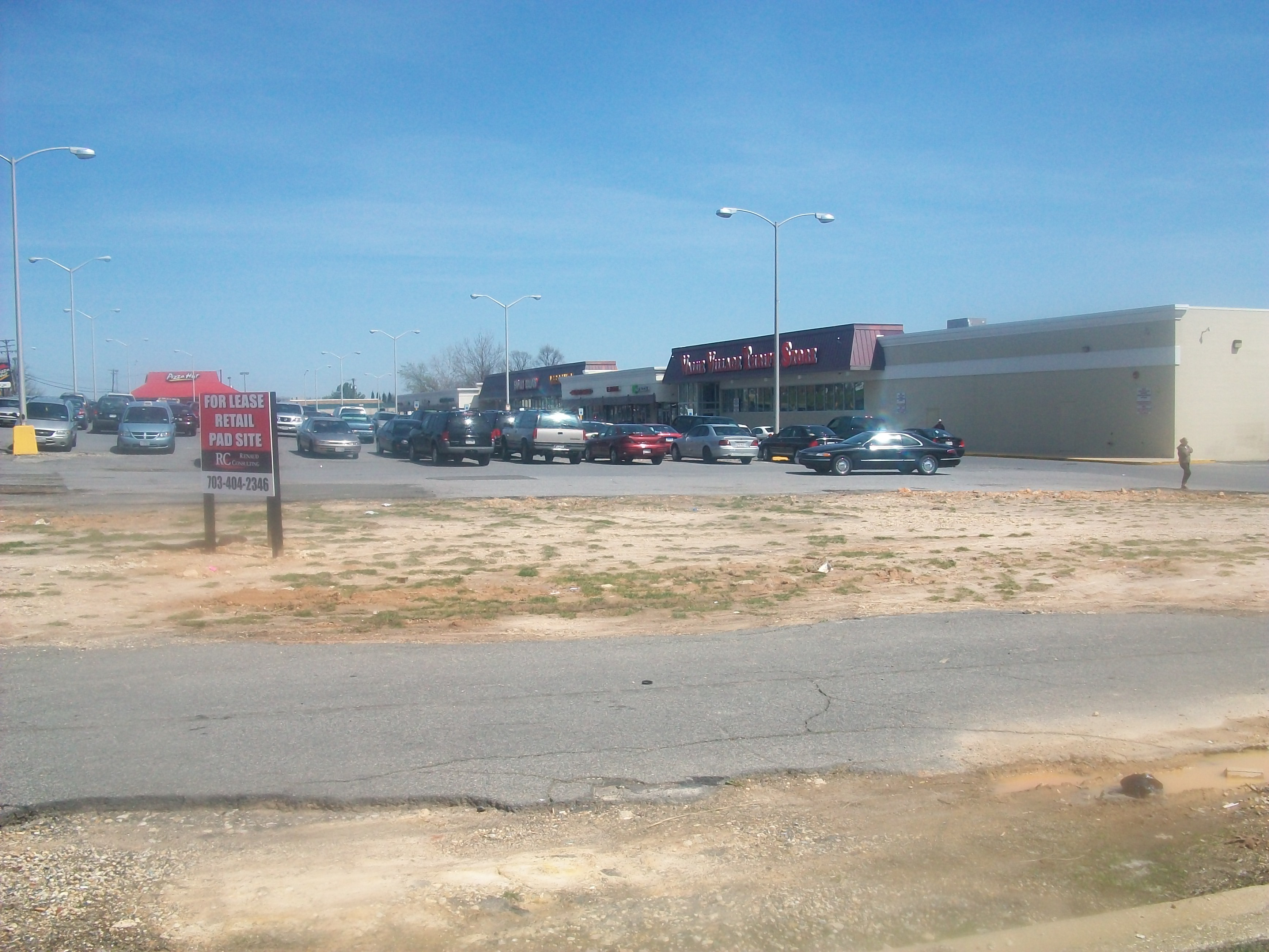 The Cherry Hill (Renamed Crestview Square) Shopping Center in Landover Hills, Maryland. Located at MD 450 on Annapolis Road.